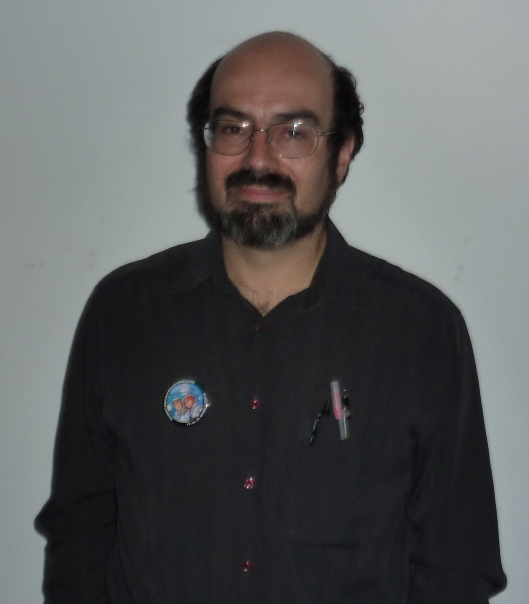 French canadian science-fiction author Jean-Louis Trudel, at his conference "Les Asimov québécois" ("The Asimov from Quebec") for Quebec City Litterature Festival, october 2012. Photo taken at the Felix-Leclerc Public Library, Val-Bélair, Quebec City, Quebec, Canada.